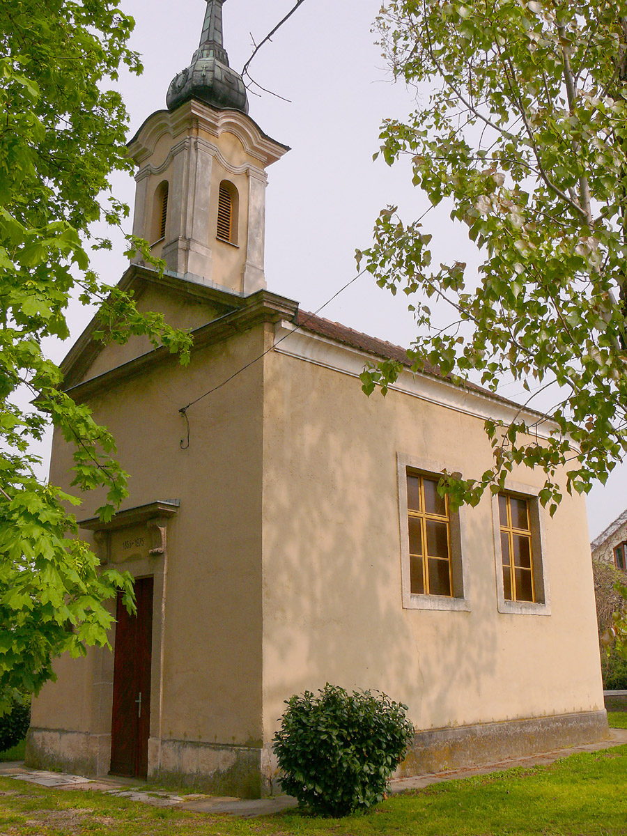 St. Anne's Chapel where Géza Gárdonyi Hungarian writer was baptised